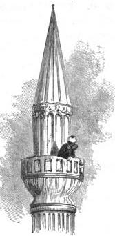 Muezzin